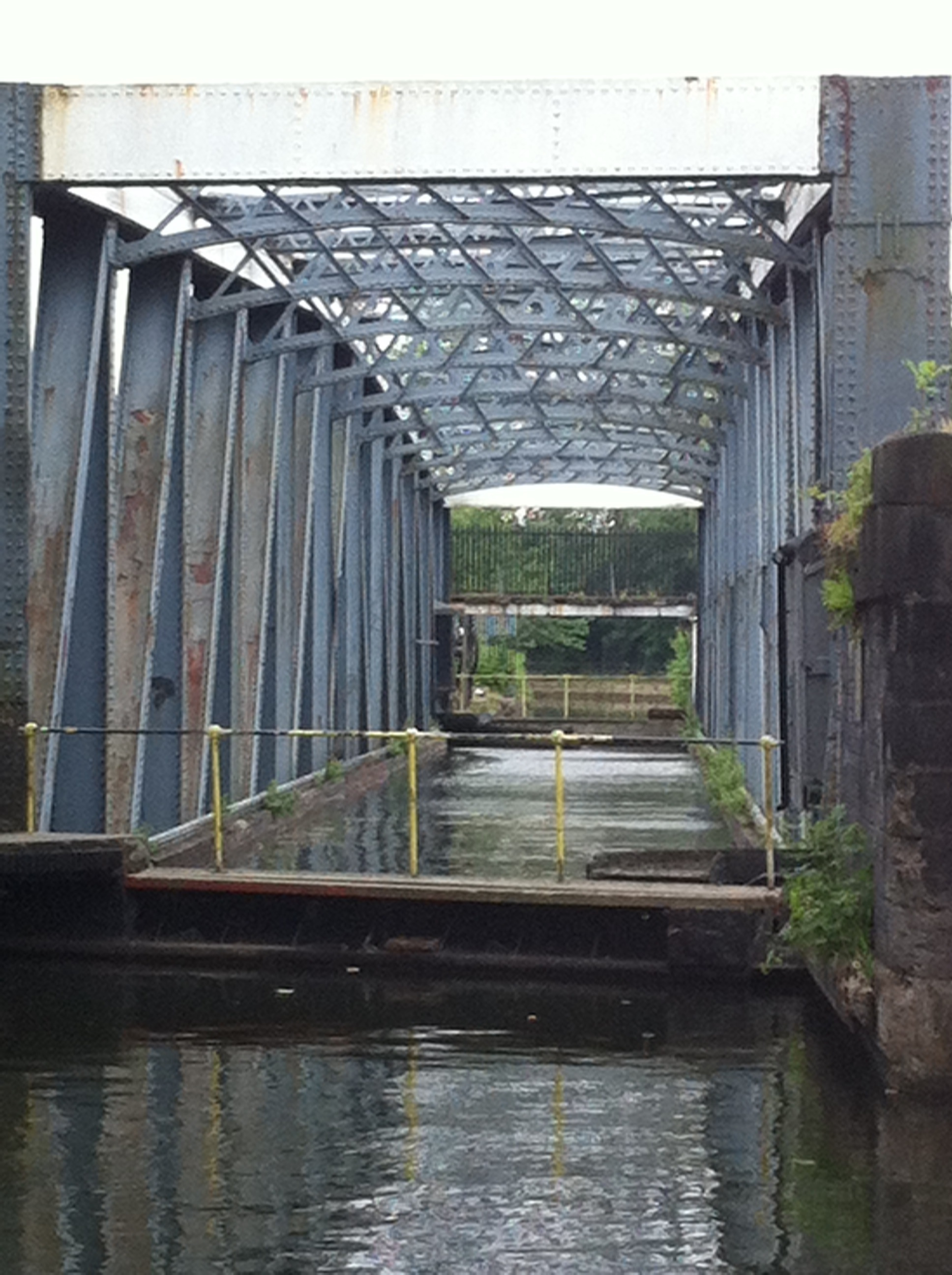 Barton swing aqueduct showing the two barriers which are extended across the waterway before the bridge is swung. The inner barrier is only extended part way.